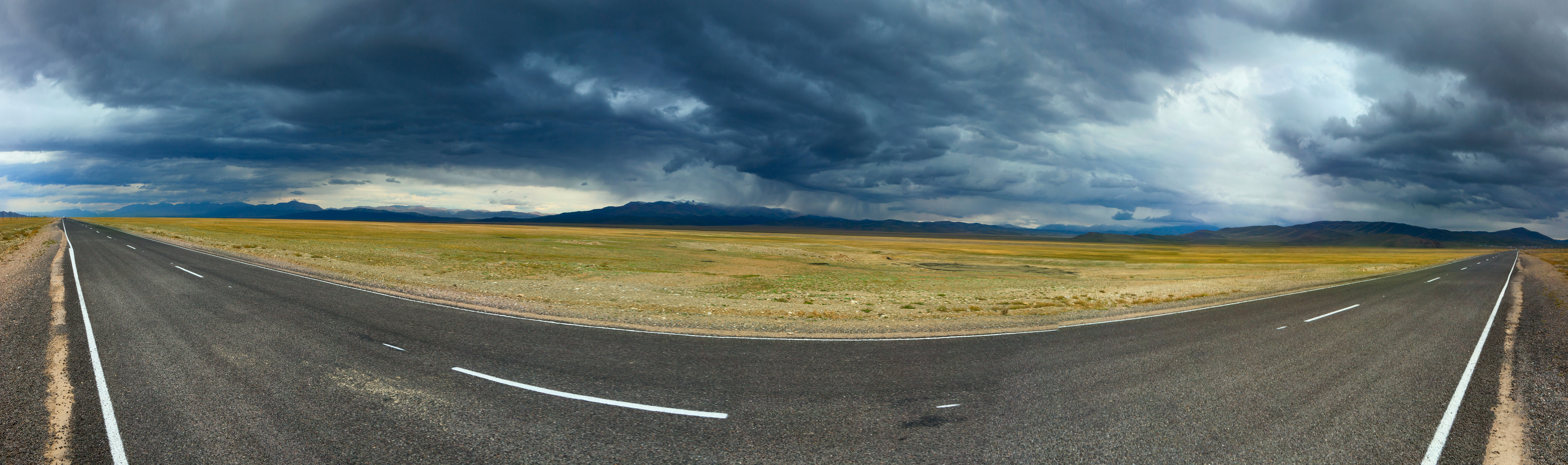 Chuysky tract 2